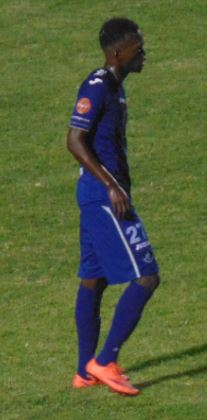 Crisanto.